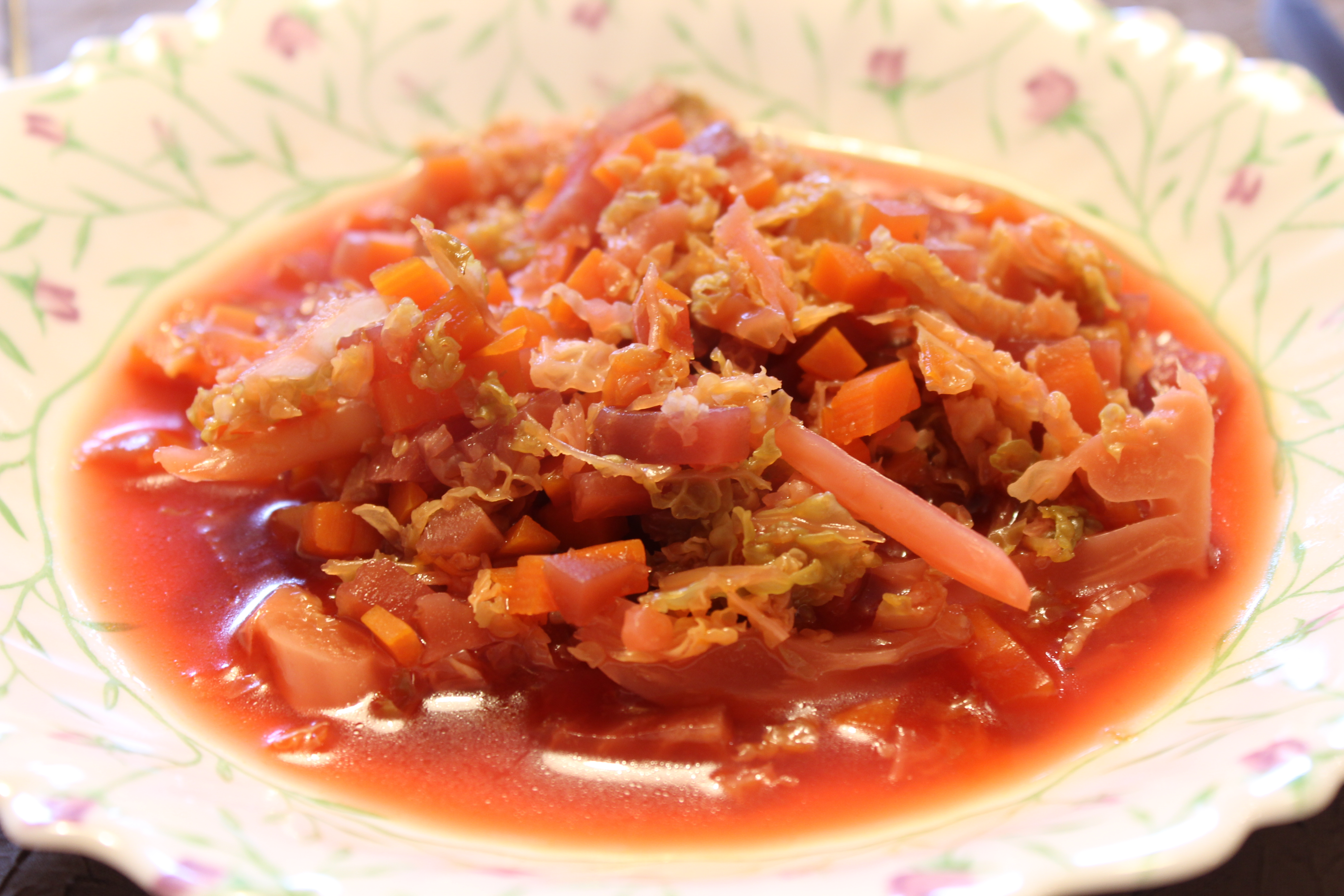 Ukrainian version of borscht.